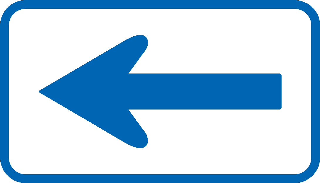 "LEFT TURN OK", where left turns on red allowed in Japan. Without this sign, left turns on red are prohibited in Japan. (But one can turn left on separated way for left turn without signal.) In either case ,one yield to crossing traffic. This is not "ONE WAY" sign, that is color invented.